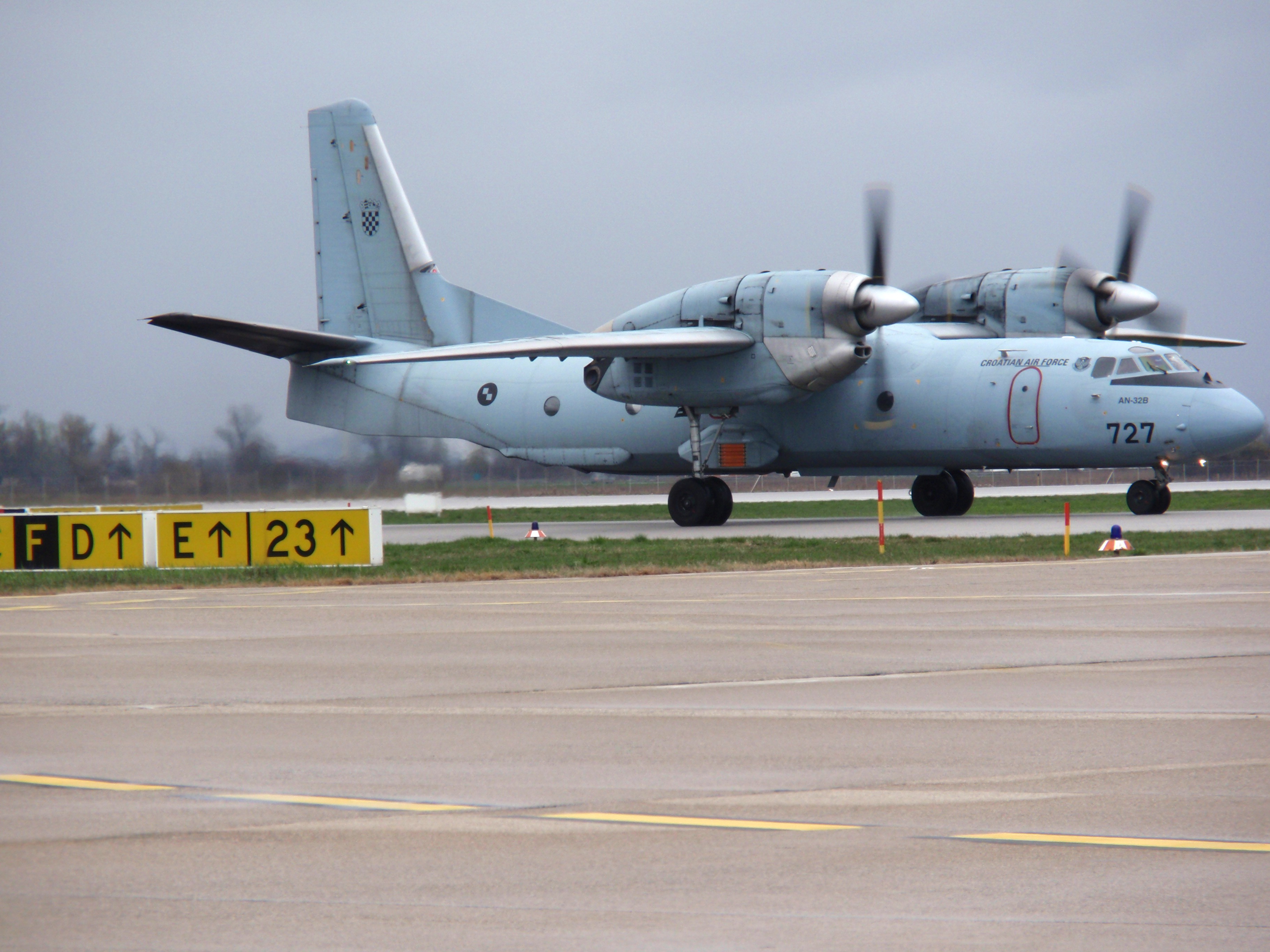 Antonov An-32B of Croatian Air Force on Airport Zagreb